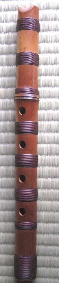 一節切 （ひとよぎり. It is said to be the predecessor of the shakuhachi instrument.